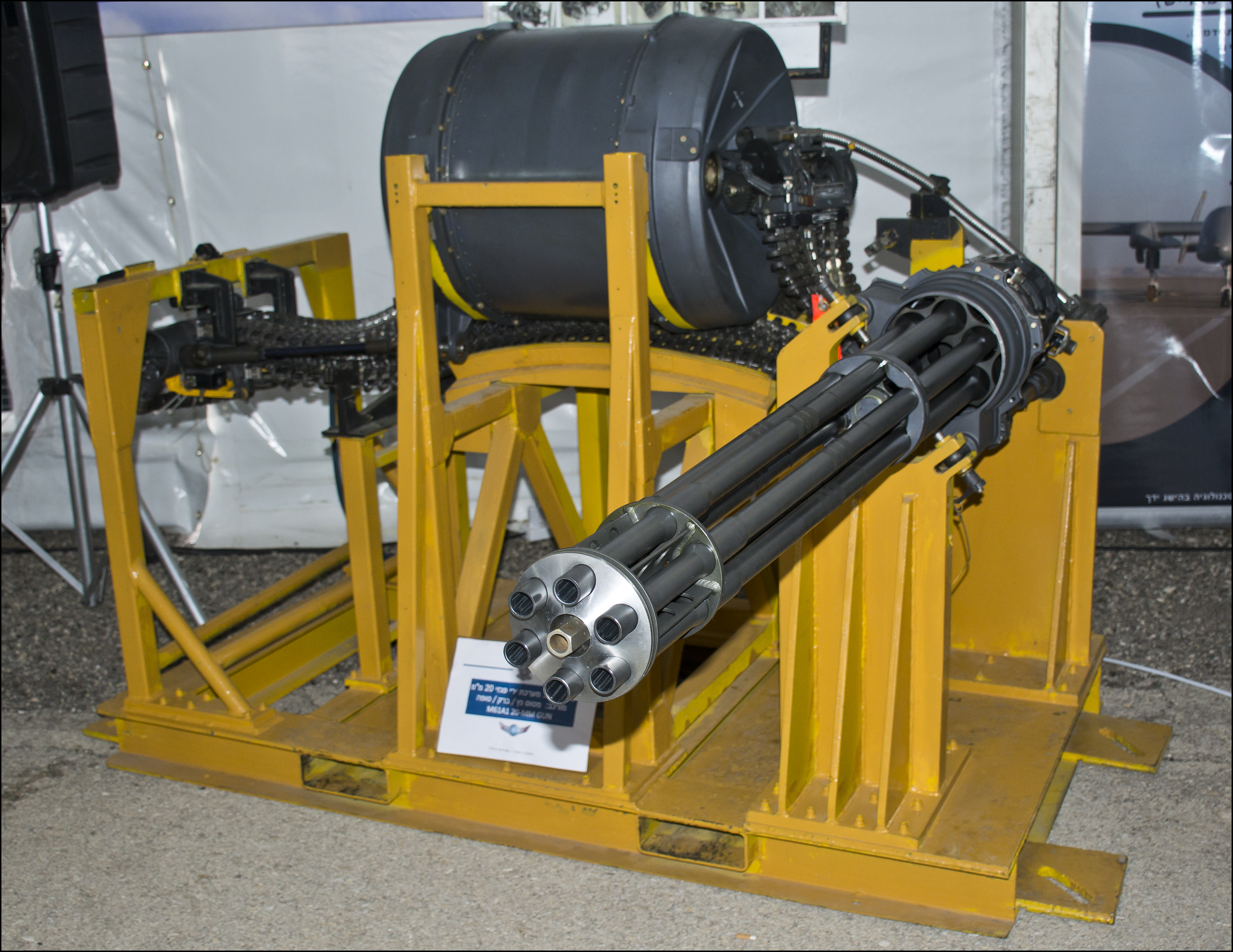 M61A1 Vulcan 20 mm gatling gun, used on IAF fighters (F-15 and F-16), Independence Day 2017